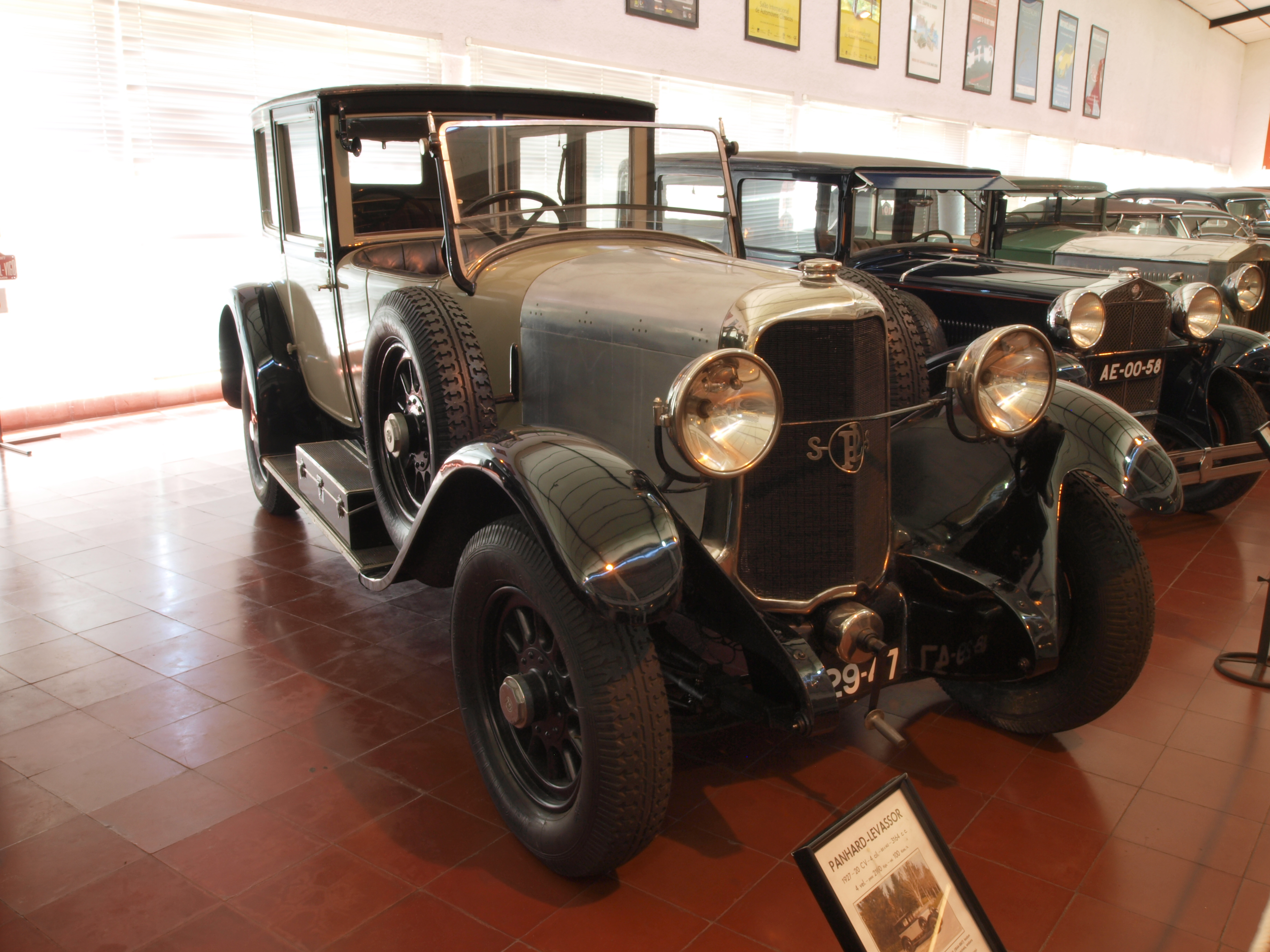 Panhard-Levassor 20 CV (fiscal horse power) Coupé de Ville, 4 cyl., sleeve valve system "Knight", 3164cc (1927). Photographed at the Caramulo museum, 'Museu do Caramulo', Caramulo, Portugal. OLYMPUS DIGITAL CAMERA